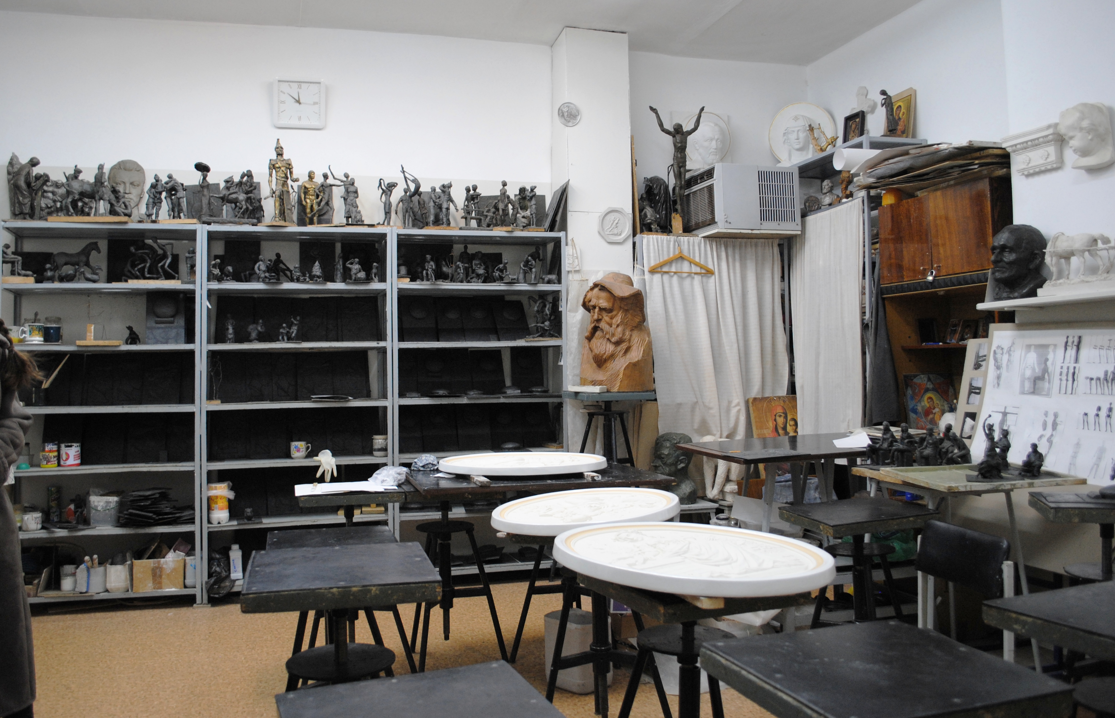 Livny's children's art school